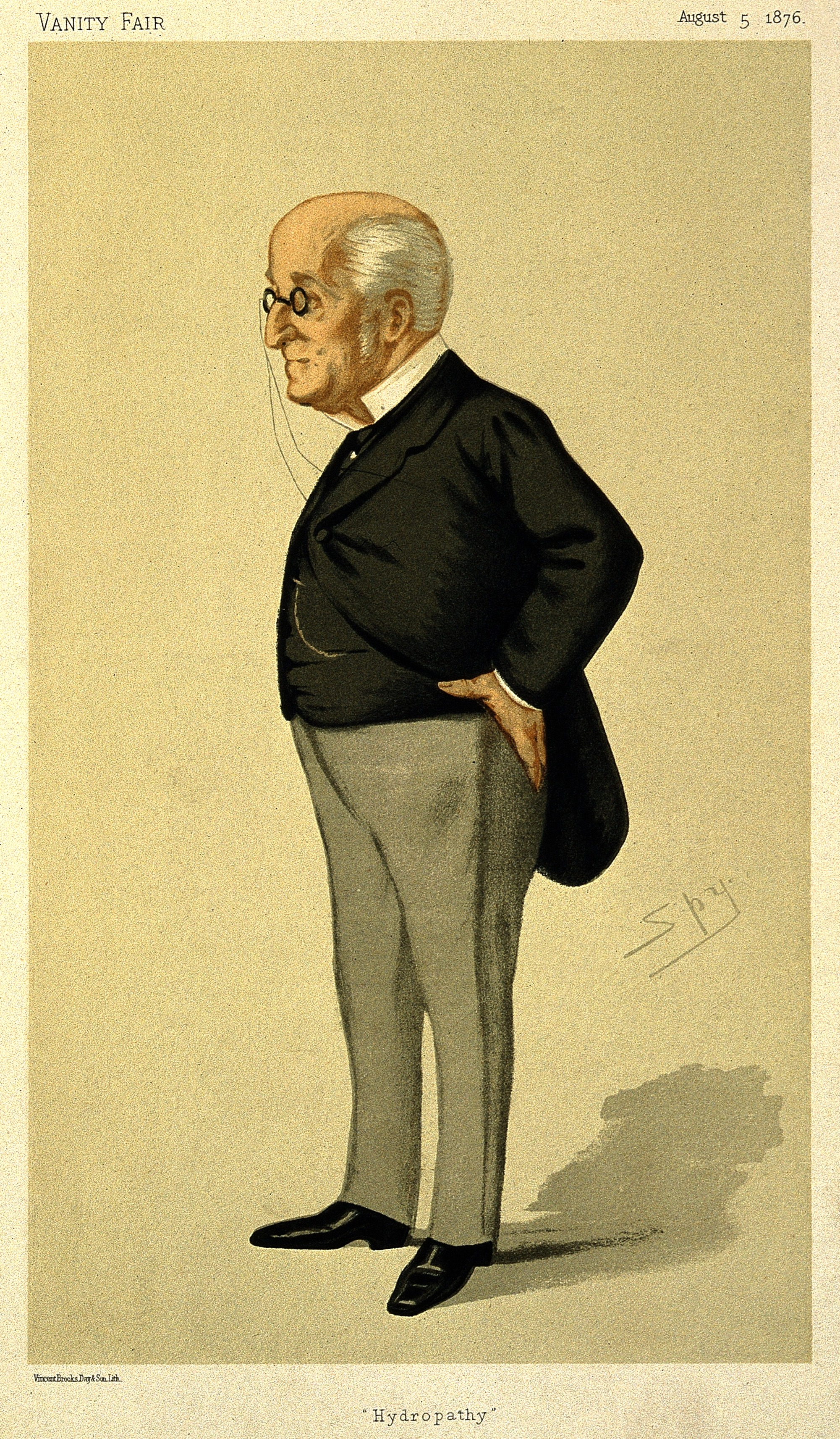 Topic-LCSH: Eyeglasses. Genre/Technique: Portrait prints. Lithographs. Subject name: Gully, James Manby, 1808-1883.